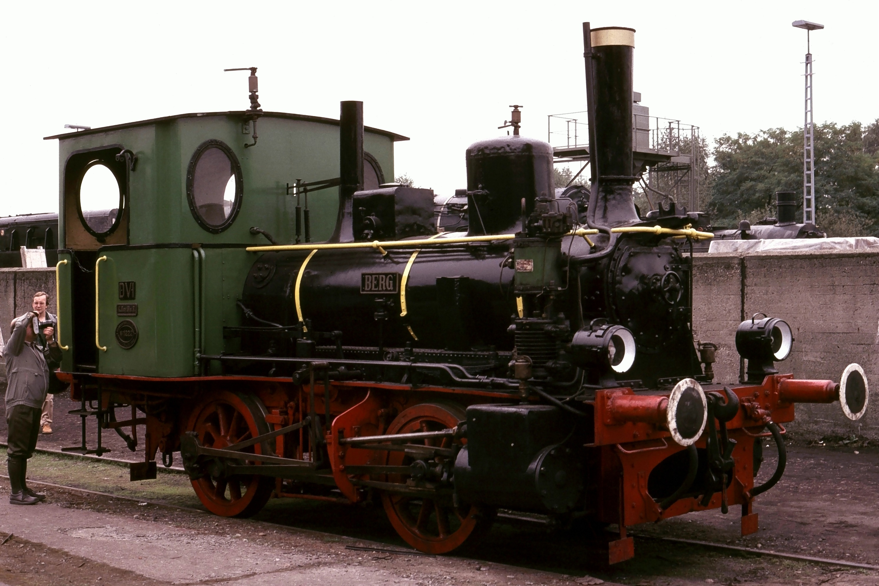 Bavarian steam locomotive Class D VI, "BERG", in Bochum-Dahlhausen